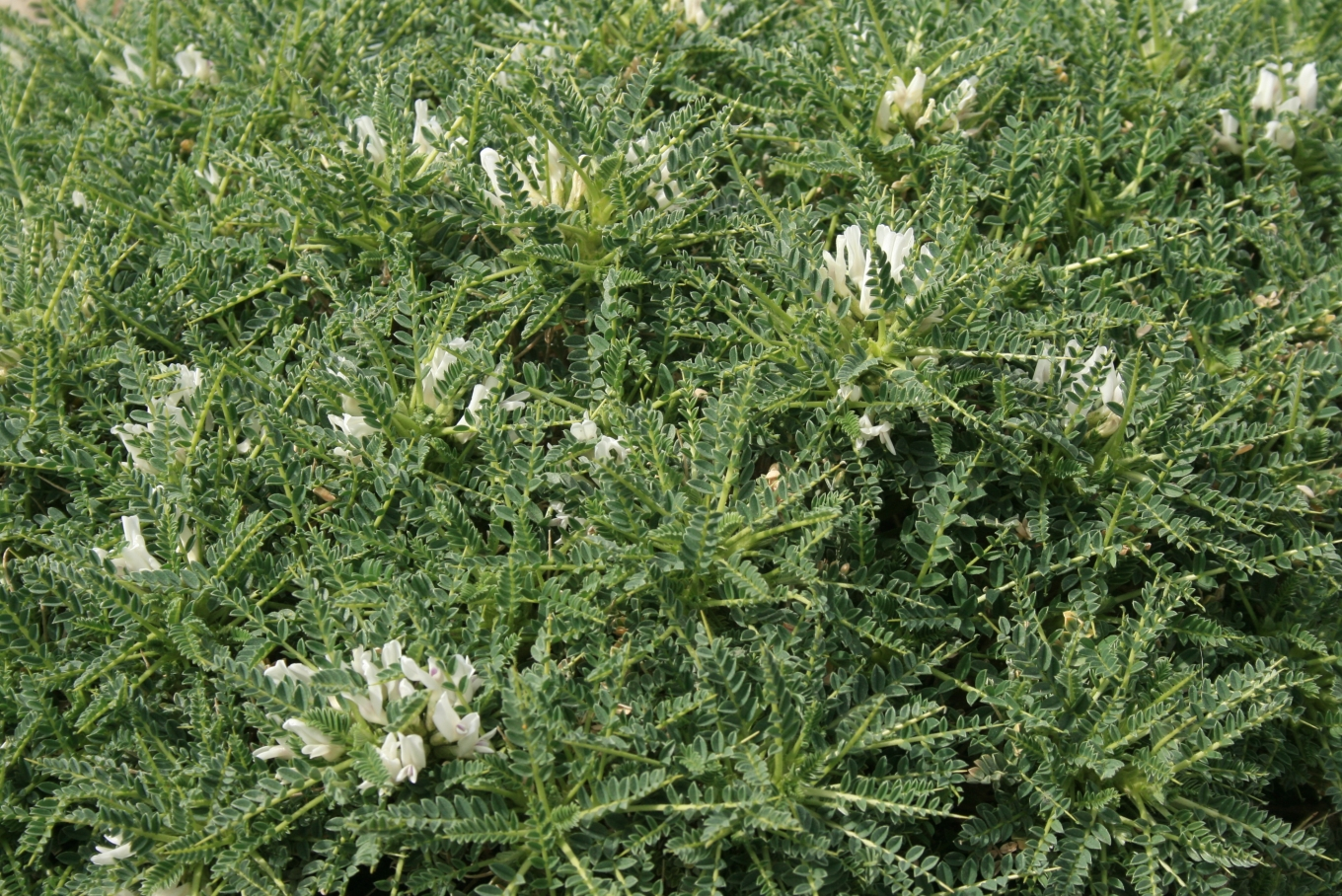 Astragalus massiliensis: Habitus. Kew Gardens, London